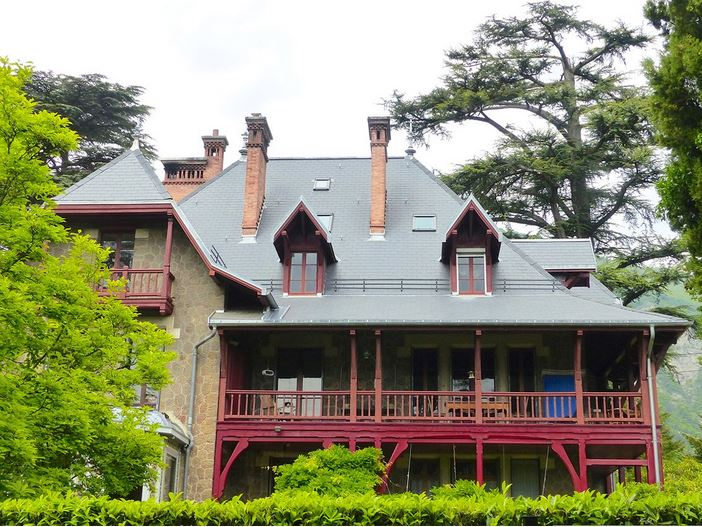 Villa du doyen René Gosse à La Tronche (38)